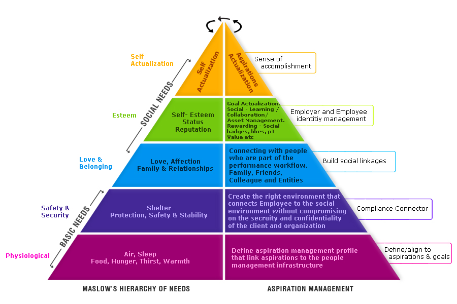 This diagram depicts the hierarchy of needs and its relation to aspiration management.